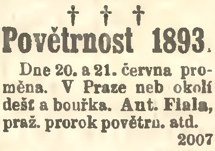 Classified ad with a weather forecast for Prague on June 20 and 21, 1893, by an excentric amateur meteorologist.